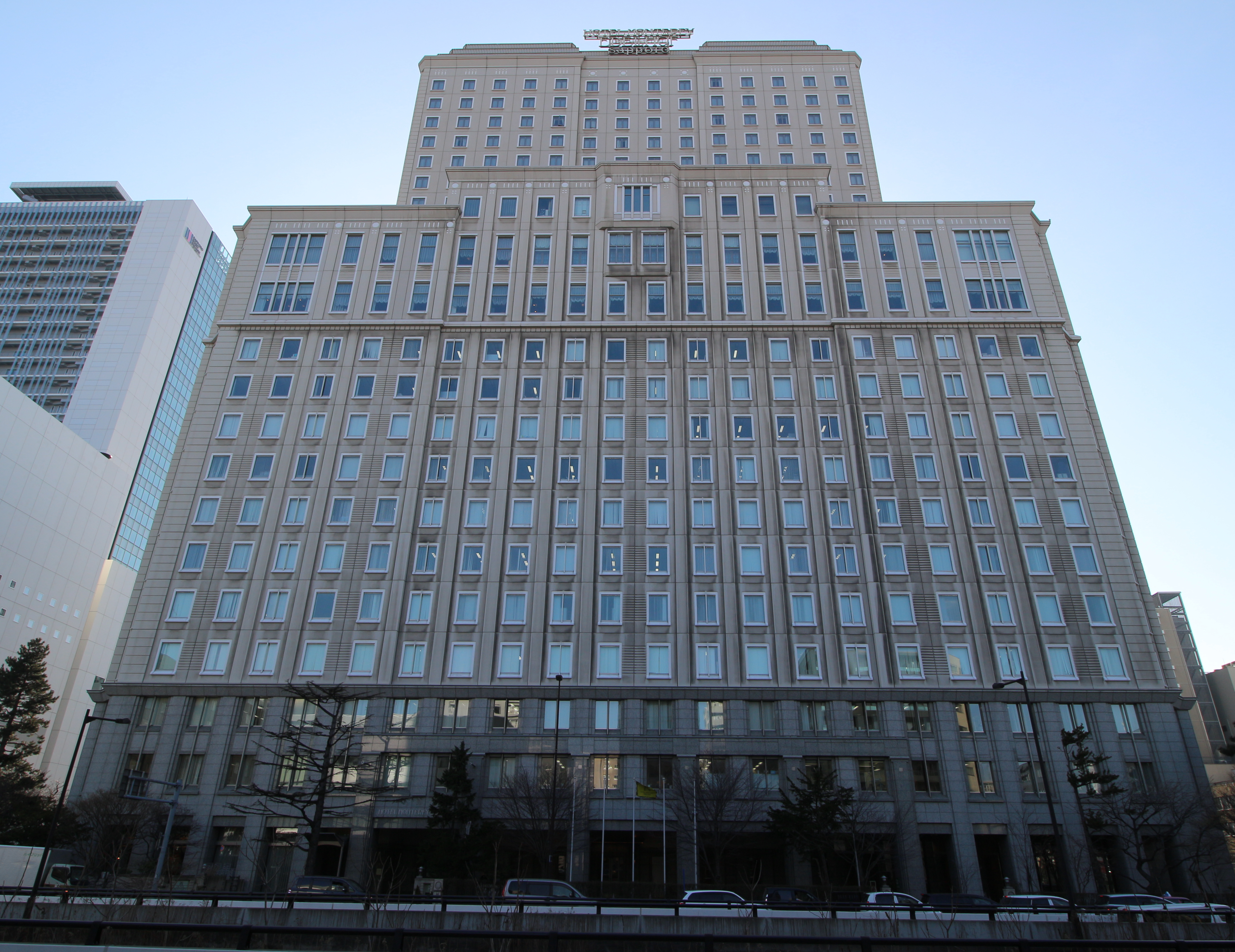 Hotel Monterey Edelhof in Sapporo, Japan.